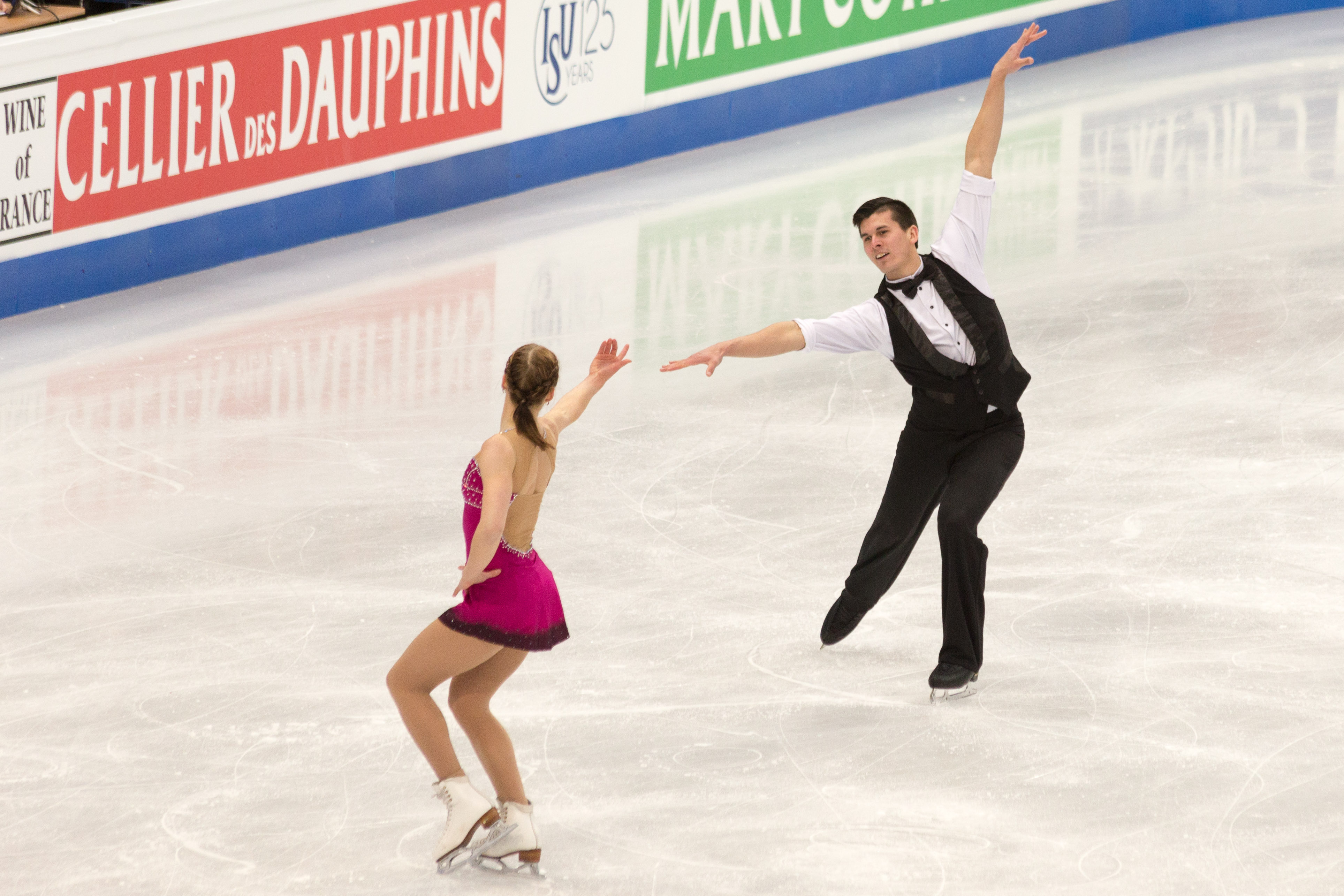 Emilia Simonen/Matthew Penasse (FIN) at the 2017 ISU World Figure Skating Championships in Helsinki